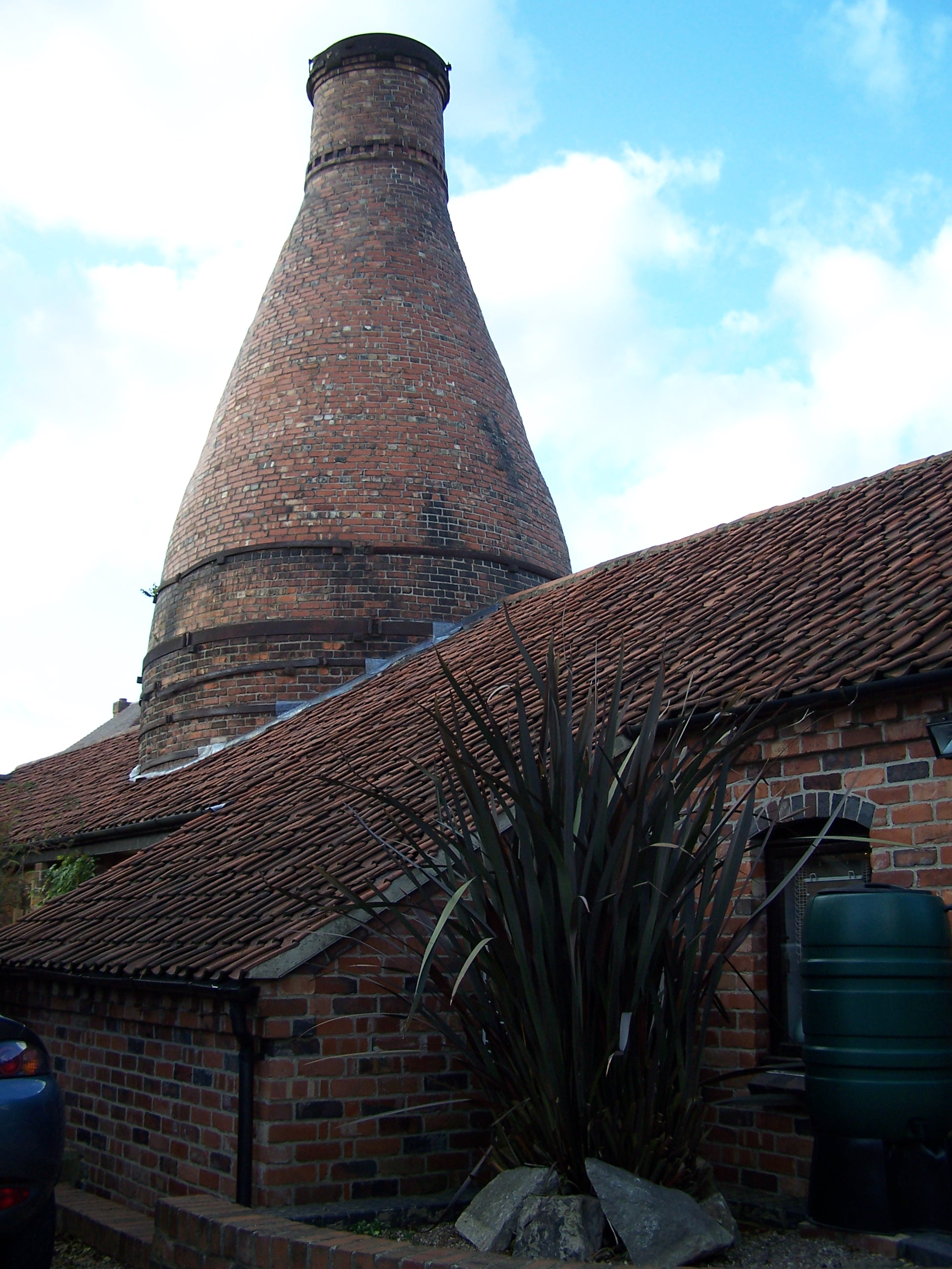 The Bottle Kiln West Hallam Derbyshire